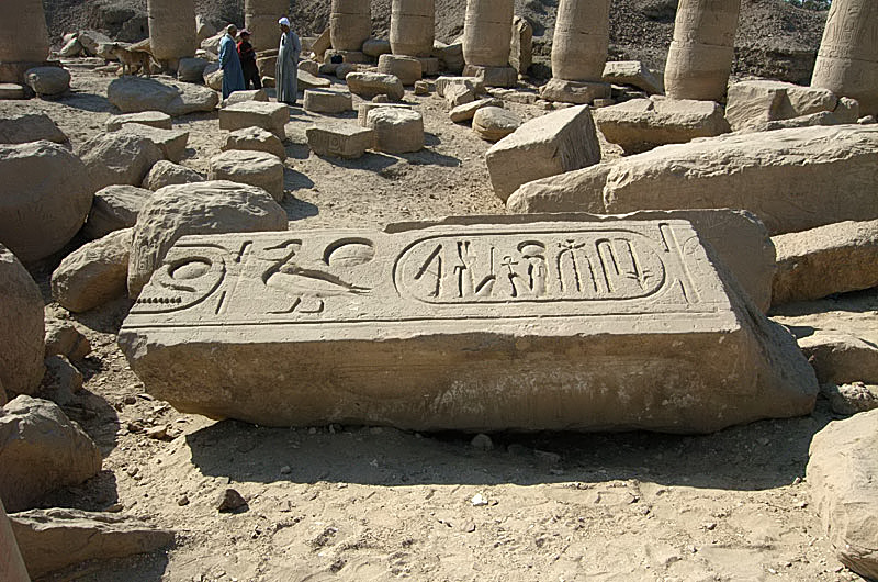 Temple of Ramesses II, fragment of an architrave bar with a cartouche, el-Sheikh 'Abada, Egypt